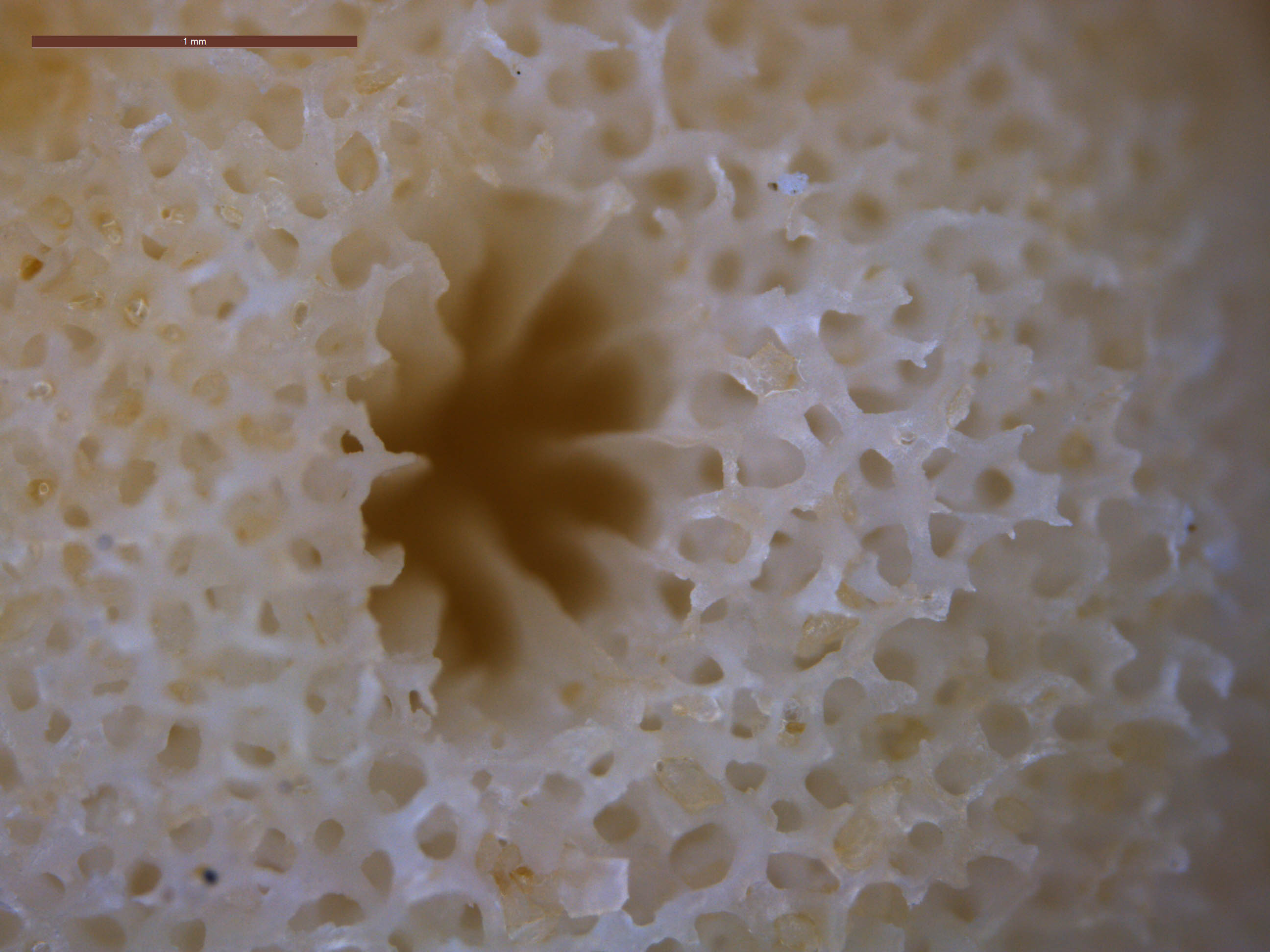 Acropora humilis - GCMP_sample_photo_748